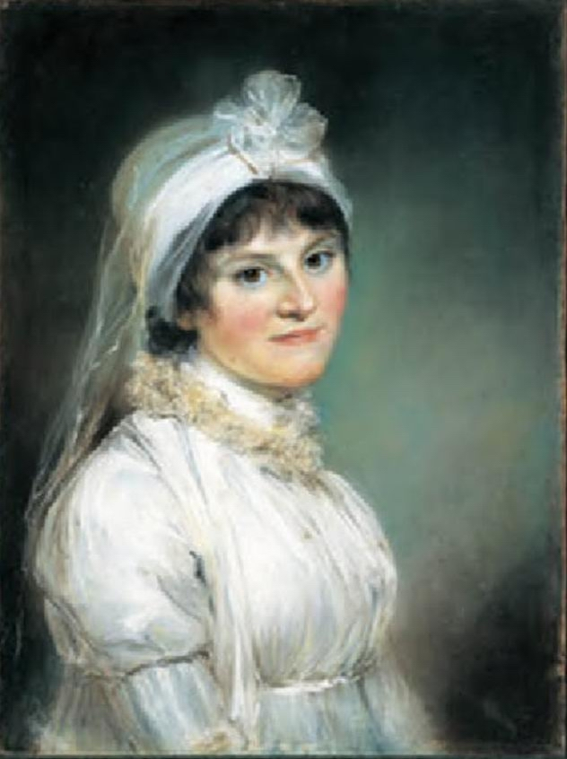 Painting done at about the time of William and Barbara's marriage. See Wilberforce: Family and Friends, Anne Stott, OUP Oxford (2012), pp 108-109.